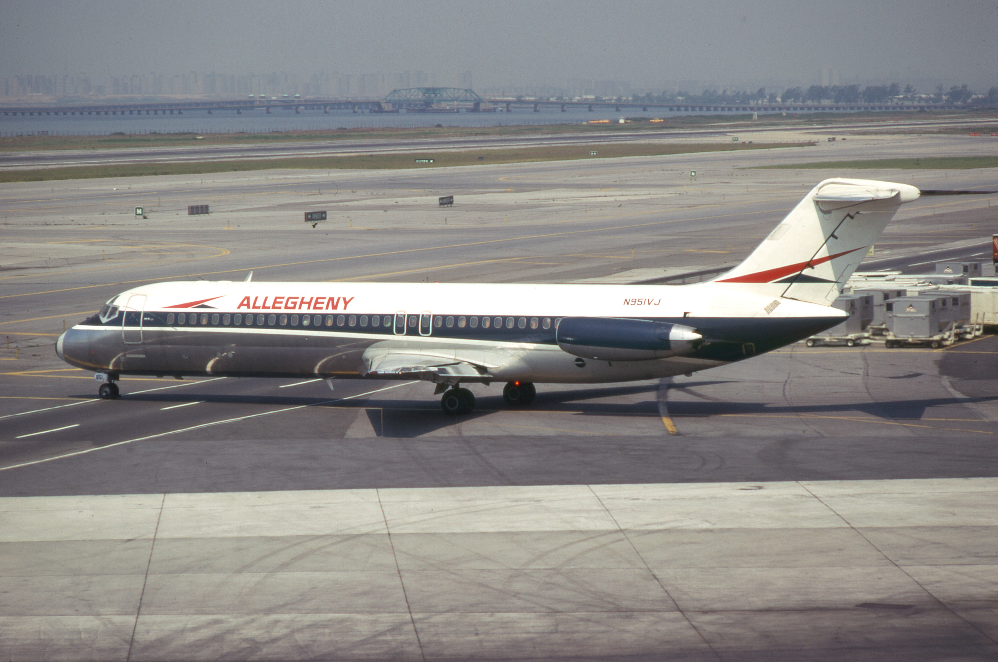 A McDonnell Douglas DC-9-31 aircraft (N951VJ) of Allegheny Airlines at John F. Kennedy International Airport in 1977.